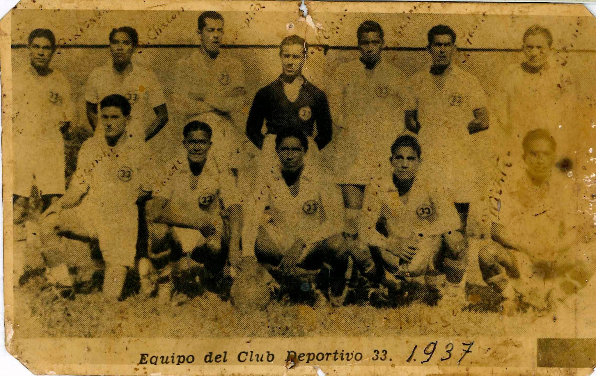 My grandfather Aquilino Rosales ( top left )gave me this picture. The whole team in 1937